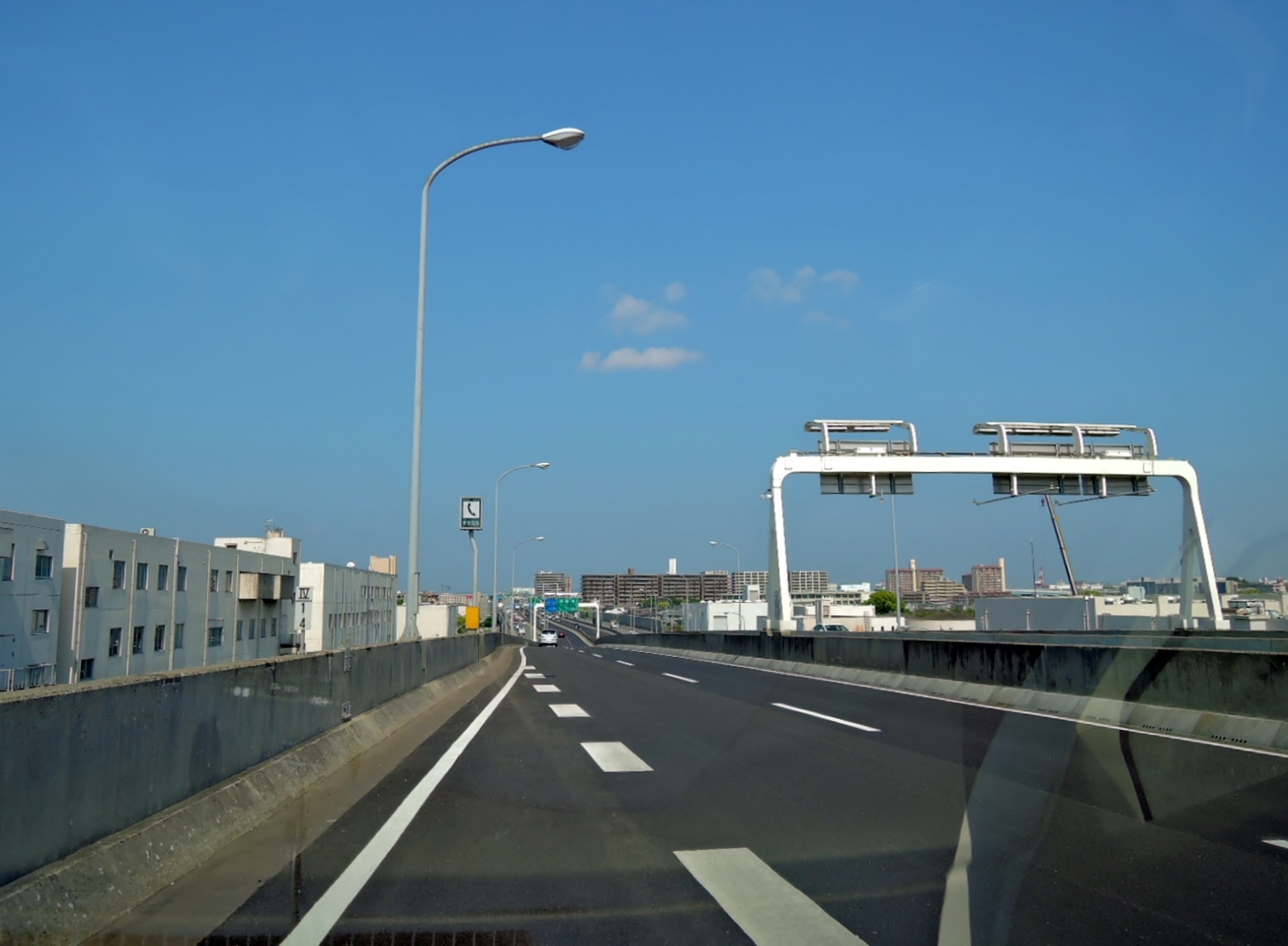 Fukuoka Expressway Kasuya Route near the Matsushima Interchange